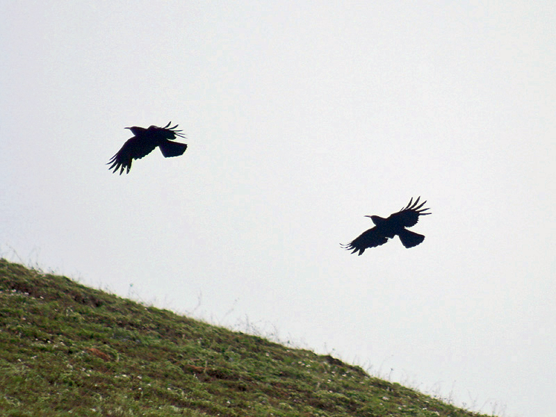 Red-billed Chough Pyrrhocorax pyrrhocorax in Kullu District of Himachal Pradesh, India. Finally, I could have a decent shot of this bird in Himachal Himalayas, after failing in the pursuit for past many years. This bird is always fascinating to a layman & the trekkers. They are surprised to know a crow with a red bill (bill shape unlike that of a crow) & red feet & with not-a-crow like call (far carrying & penetrating nasal 'chaow.... chaow') existing in Himalayas. From a distance, it will appear like a Large-billed Crow only as the curved red bill & feet etc. are not that visible or one doesn't pay much attention. Taken at Duara Thatch Camp during Saurkundi Pass Trek in Himachal.